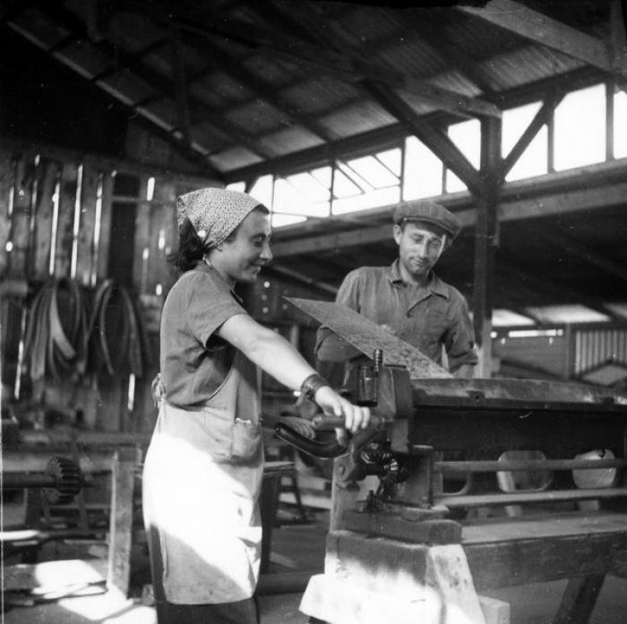 Ein Hahoresh, Industry in Israel